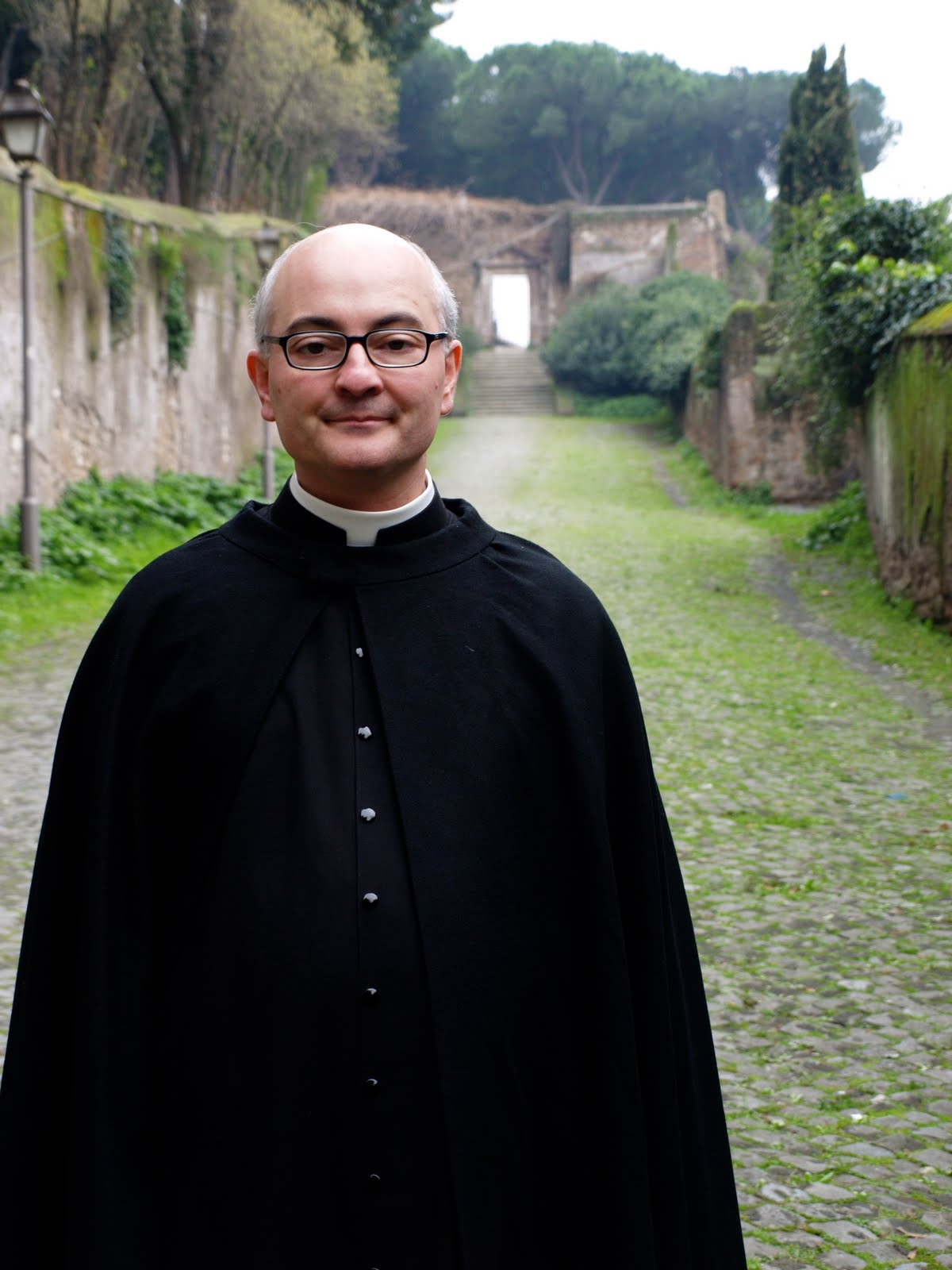 Padre Fortea, Fr. Fortea